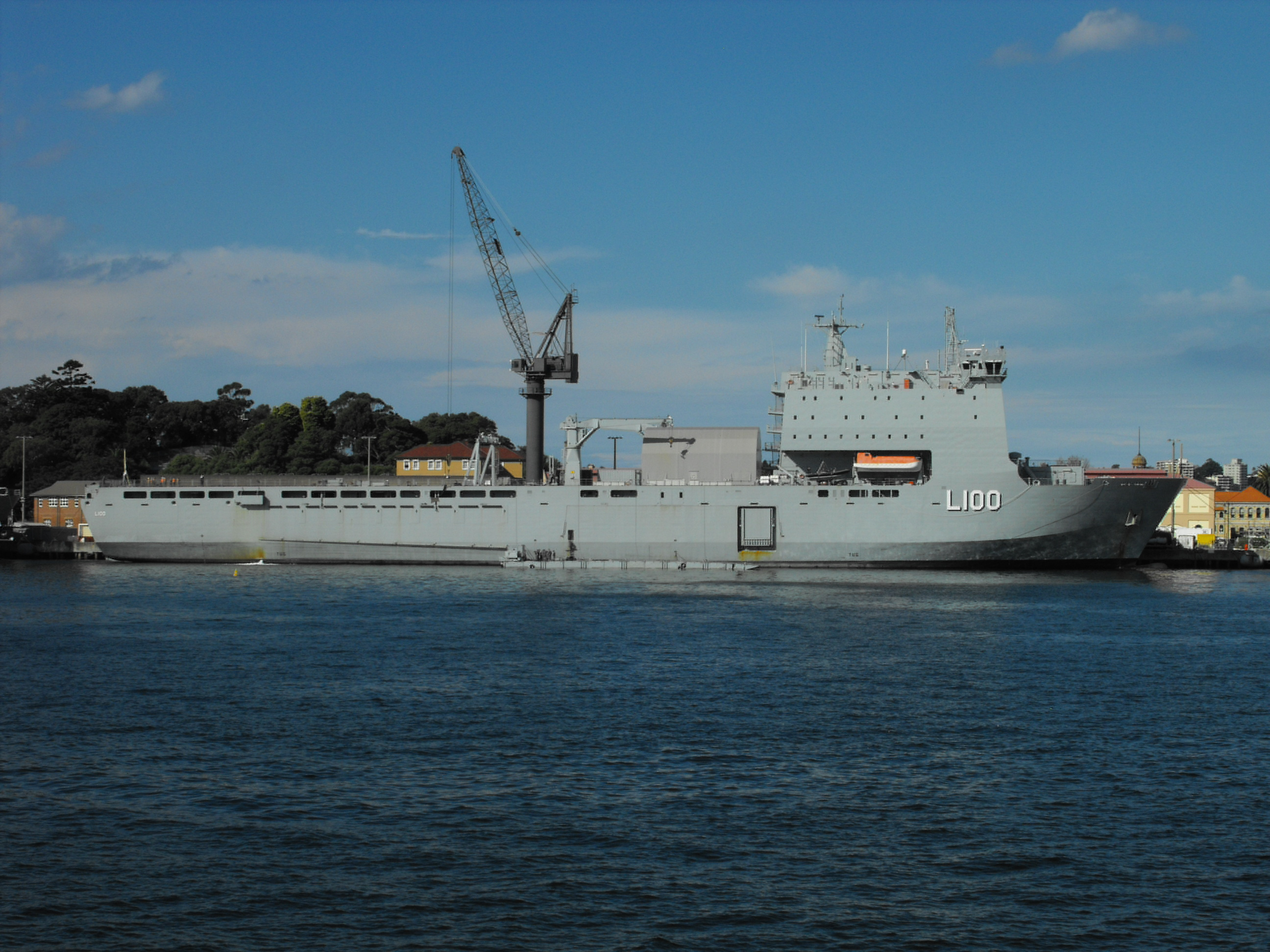 The Royal Australian Navy amphibious vessel HMAS Choules alongside at Fleet Base East in May 2012